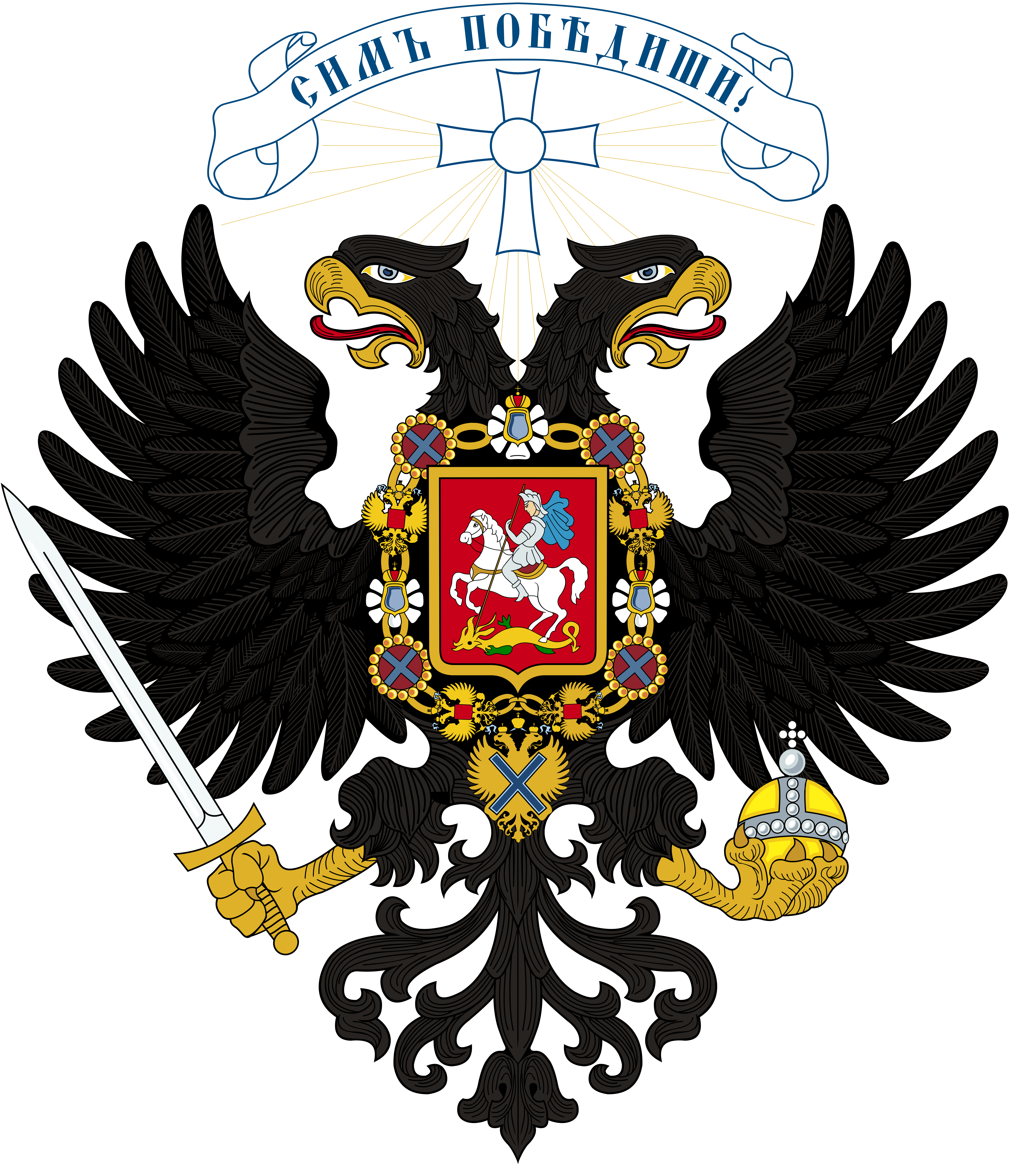 Coat of arms project for the Russian State, used by the govenments of Alexander Kolchak and Anton Denikin.